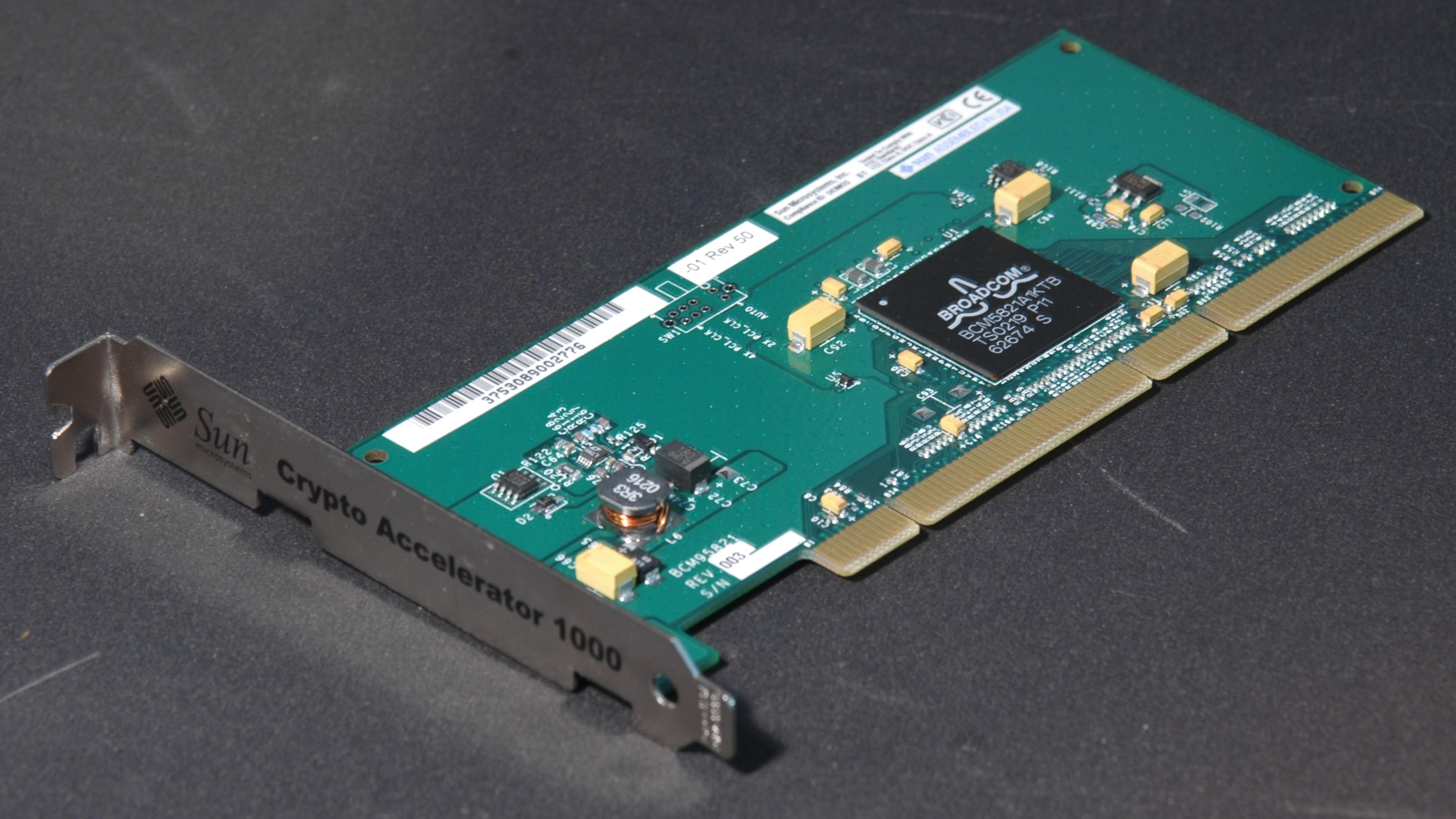 Sun Microsystems Crypto Accelerator 1000 PCI card is an SSL accelerator board introduced in 2002. From the collection of the RCS/RI.